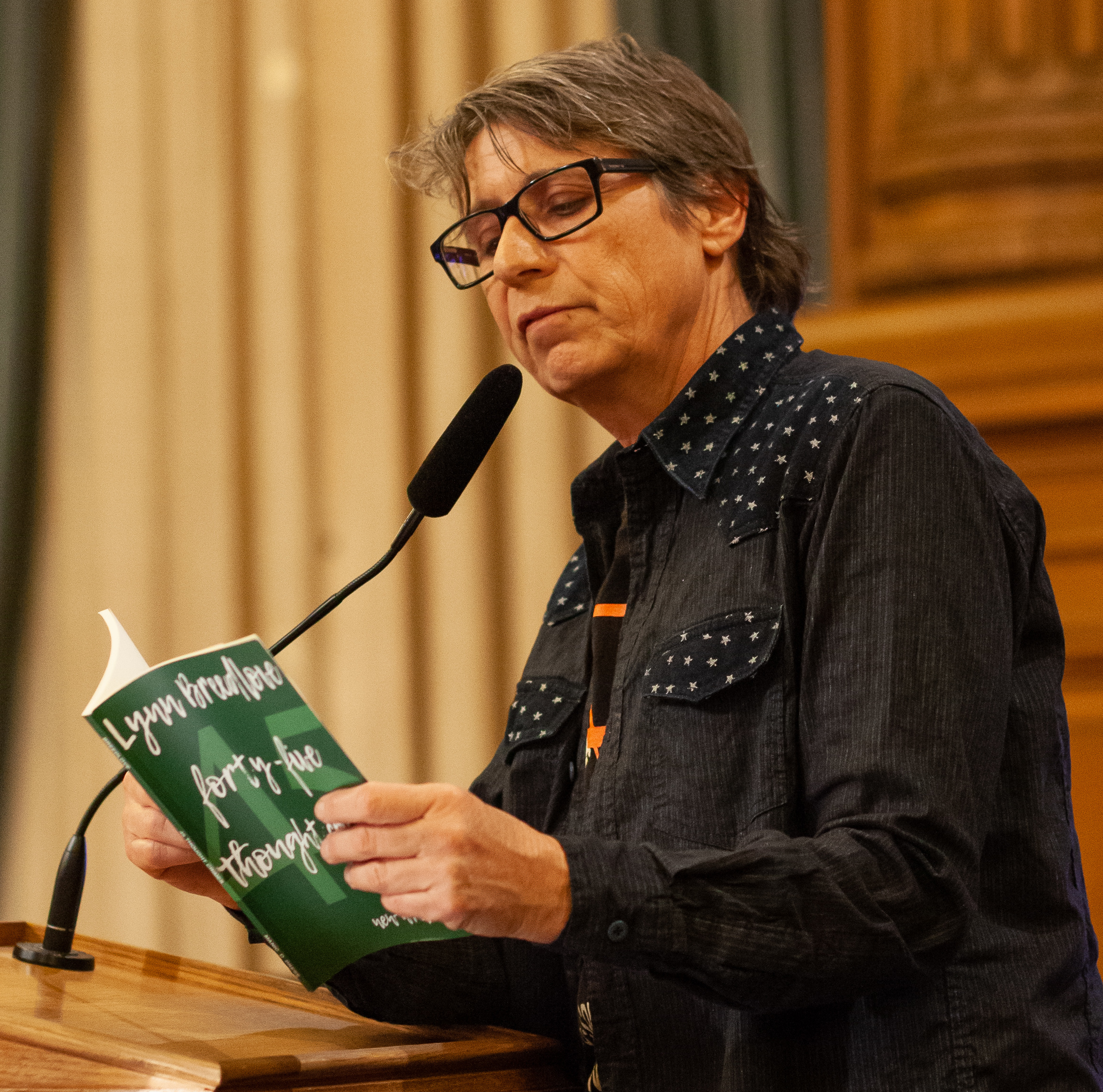 Lynn Breedlove reads from his book at a San Francisco Board of Supervisors meeting during Transgender Awareness Week.